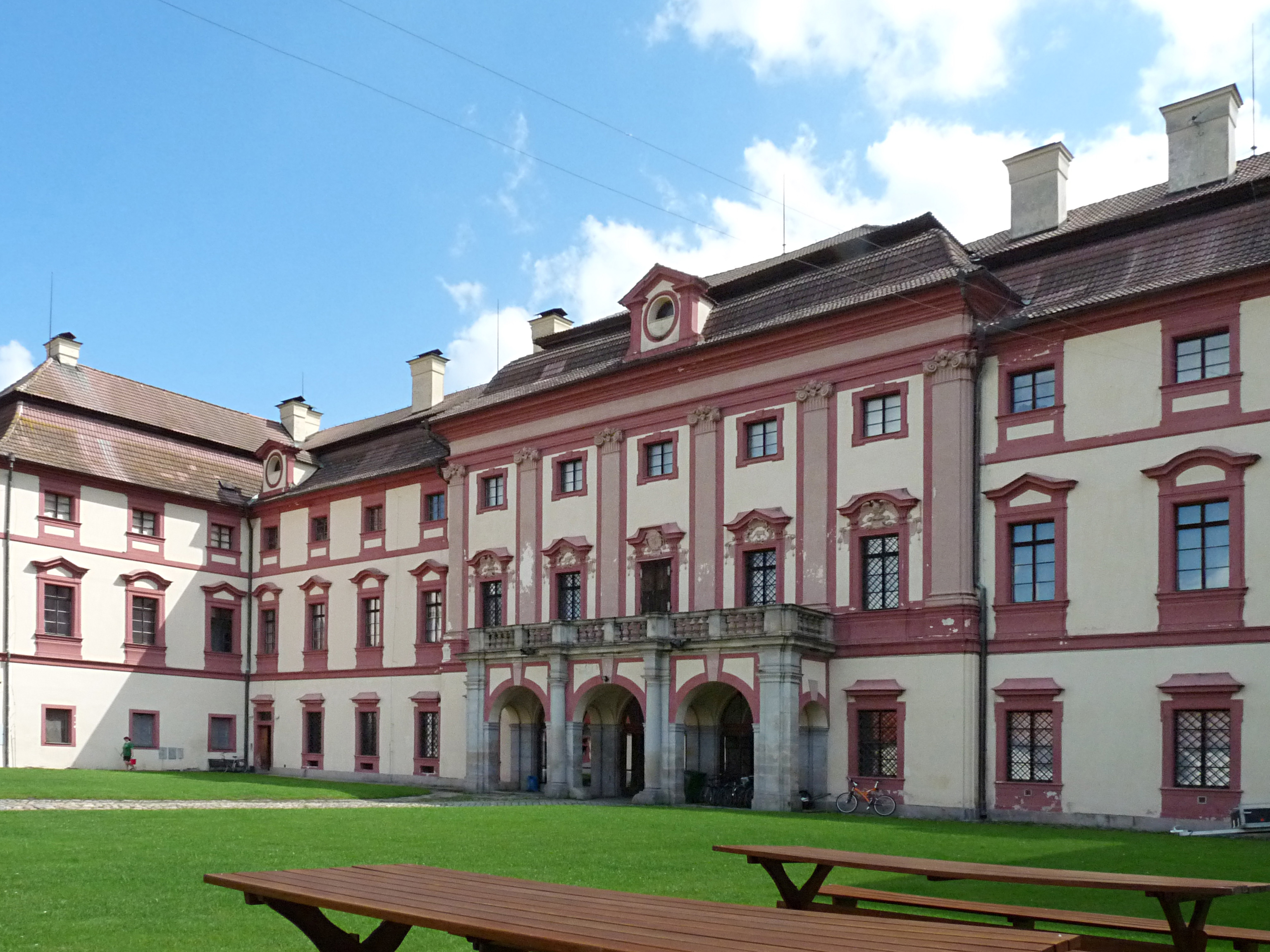 First courtyard of Hunting Lodge Ohrada near Hluboká nad Vltavou, Czech Republic